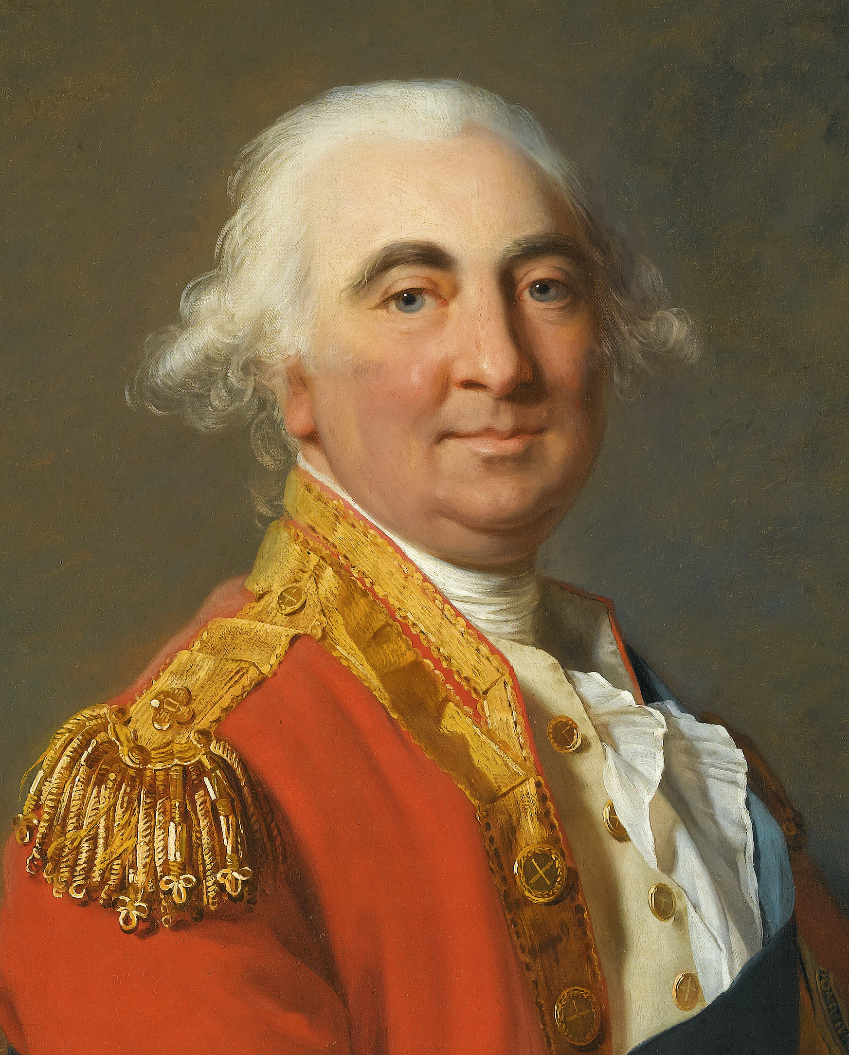 Portrait of William Petty (1737–1805)